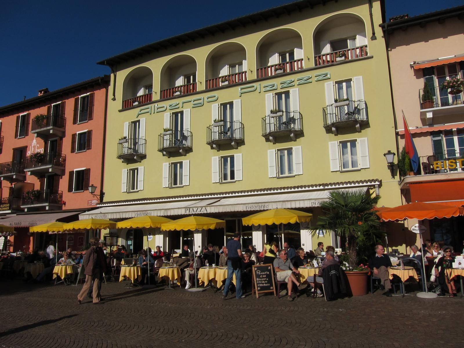 Albergo Hotel-Restaurant in Ascona, Ticino, Switzerland